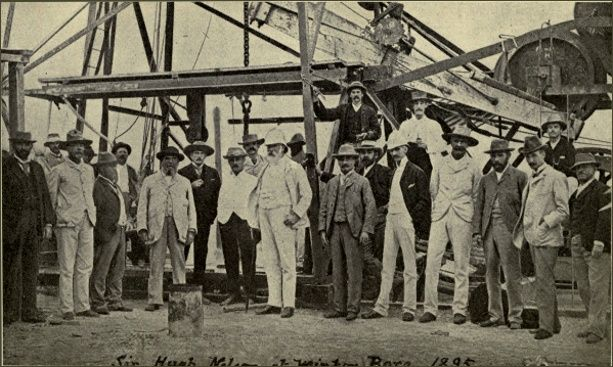 Boring “plant” at the Winton Bore in Winton, Queensland, in 1895. The man in the white suit and helmet at centre is Sir Hugh Nelson, then Premier of Queensland